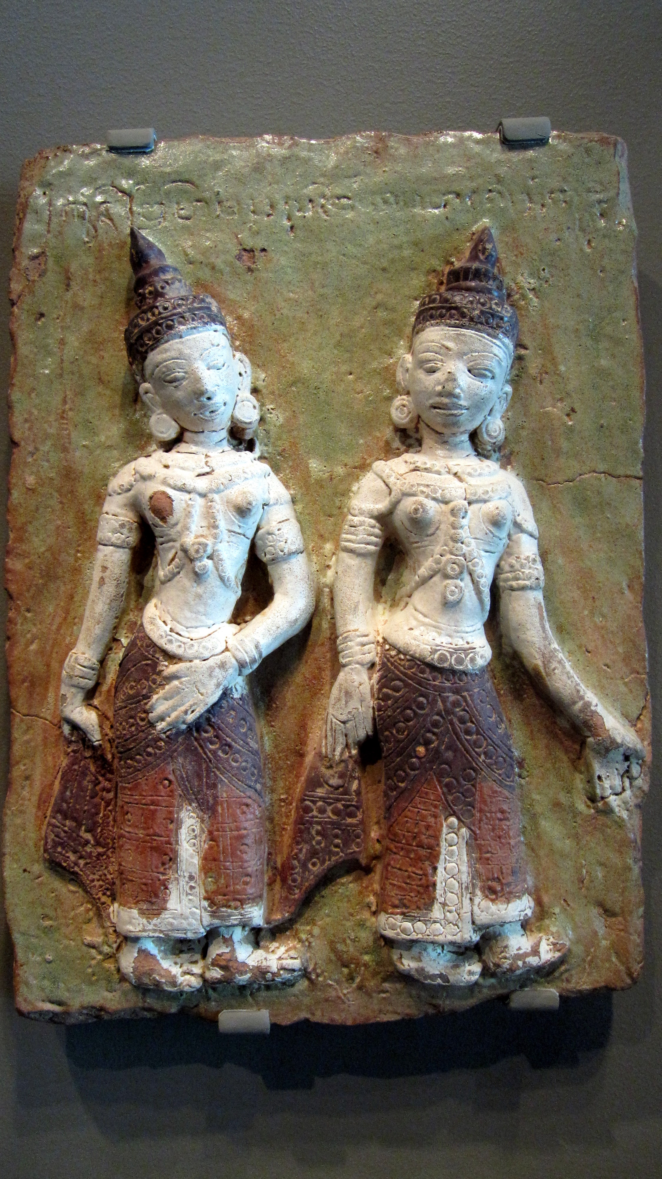 Daughters of the demon Mara, glazed terra cotta, 1460-1470, southern Burma (Myanmar), Asian Art Museum, San Francisco, Inv.-Nr. B86P14. See [1]